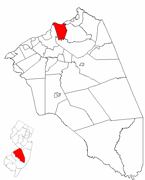 Map of Burlington County highlighting Florence Township